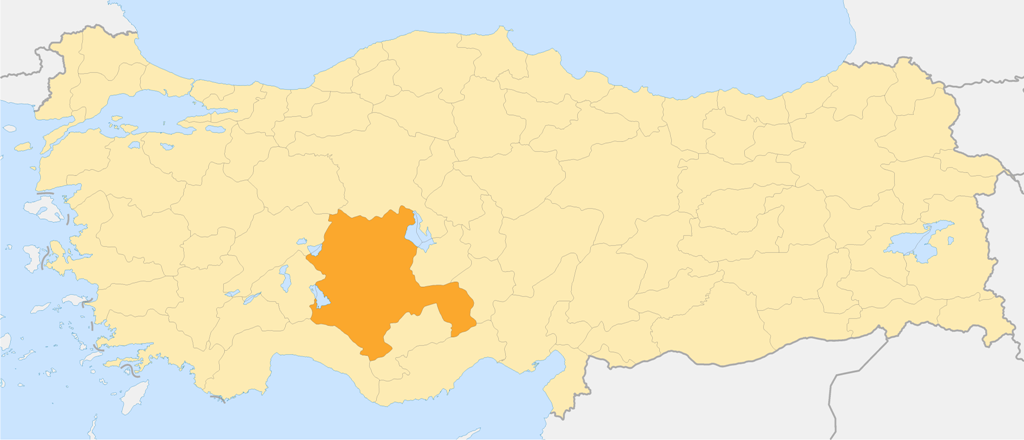 Location map of the Province of Konya in Asian Turkey.